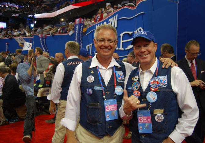 Delegates from Montana at the 2012 Republican National Convention